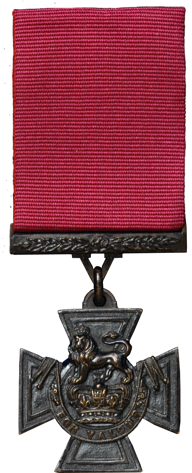 Victoria Cross (VC). The premier award for gallantry, the VC may be awarded to all ranks of the services and civilians for gallantry in the presence of the enemy. It may be awarded posthumously. Description: A cross pattée in bronze. The obverse of the medal (shown here) bears a lion statant guardant on the royal crown, with the words 'FOR VALOUR' on a semi-circular scroll. The reverse bears a circular panel inside which is engraved the date of the act for which the decoration was awarded. The reverse of the suspender is engraved with the rank, name and ship, regiment or squadron of the recipient. Clasp. A bronze bar ornamented with laurels may be issued to VC holders performing a further act of such bravery which would have merited award of the VC. Ribbon. Plain crimson. Prior to 1918, a dark blue ribbon had been issued for the Royal Navy. When the ribbon alone is worn a replica of the cross in miniature is affixed to the centre of the ribbon. History. Instituted by Queen Victoria to cover all actions since the outbreak of the Crimean War in 1854, the Victoria Cross has been awarded 1356 times and 3 bars have been awarded. The VC is made from the bronze of Russian guns captured at Sebastopol, though modern research suggests that Chinese guns may have been used at various times. Organization: MoD Object Name: RPG001 Supplemental Categories: People, Medals Keywords: Victoria Cross, Medal, VC, Award Country: UK